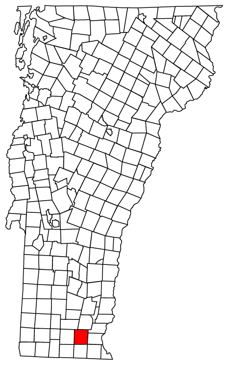 Description: Map of Vermont towns with Marlboro highlighted Source: Map created by Jared C. Benedict on 26 March 2004. Copyright: © Jared C. Benedict.